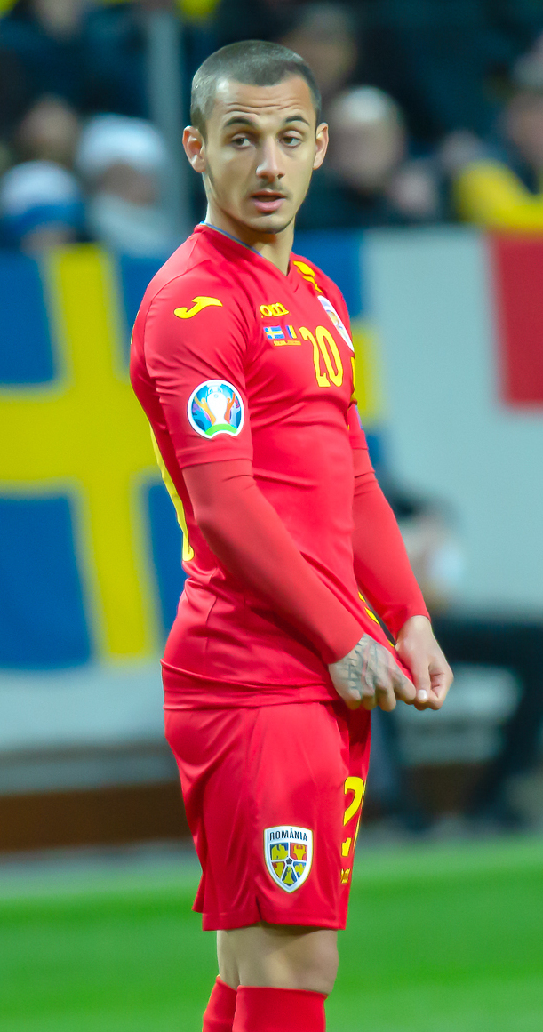 UEFA EURO qualifiers Sweden vs Romaina 20190323